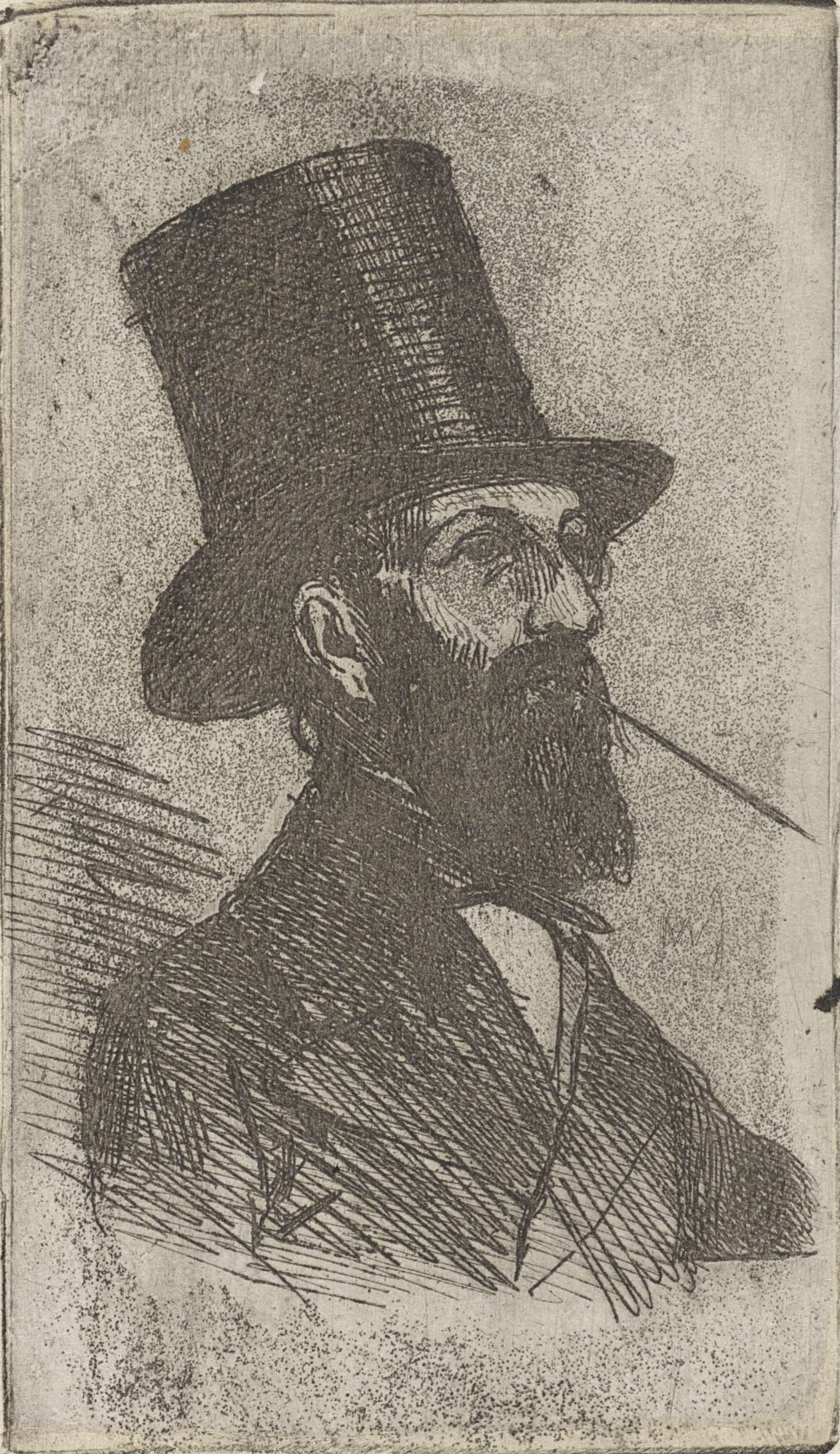 Portret van Reinier Craeyvanger